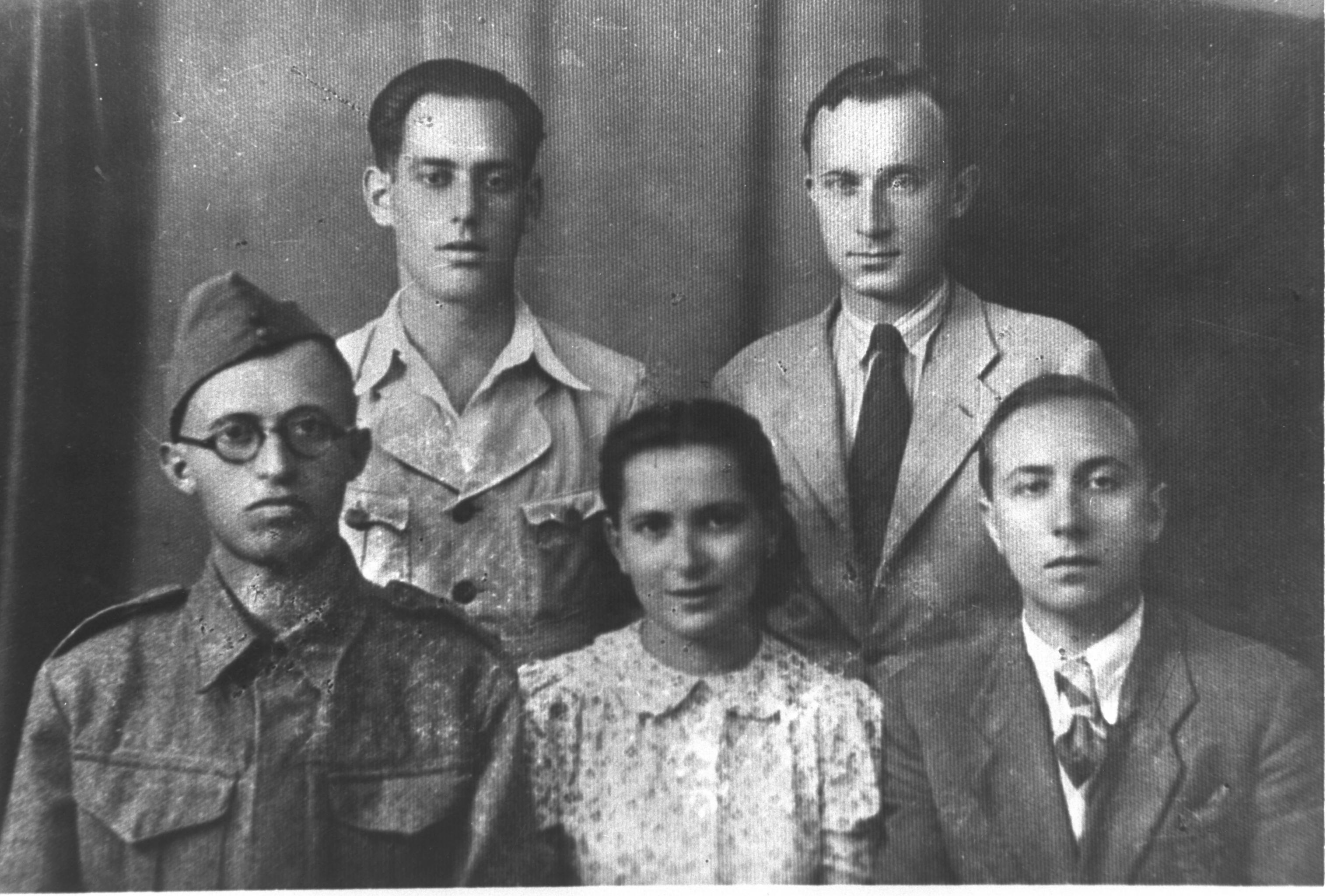 (BOTTOM) MENAHEM BEGIN IN POLISH ARMY UNIFORM OF GEN. ANDERS FORCES WITH WIFE ALIZA AND DAVID YUTAN. (TOP) MOSHE STEIN AND ISRAEL EPSTEIN. (JABOTINSKY INST.) מנחם בגין במדי הצבא הפולני, עם רעייתו עליזה, דוד יוטן, משה שטיין וישראל אפשטיין.